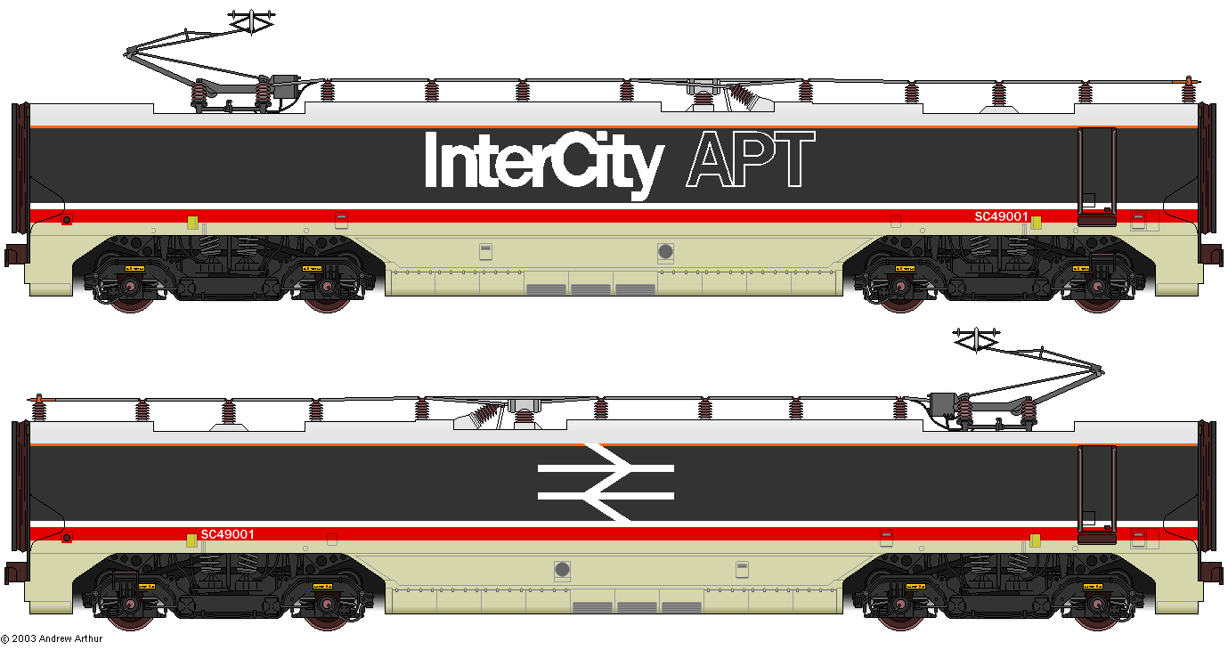 Advanced Passenger Train Non Driving Motor